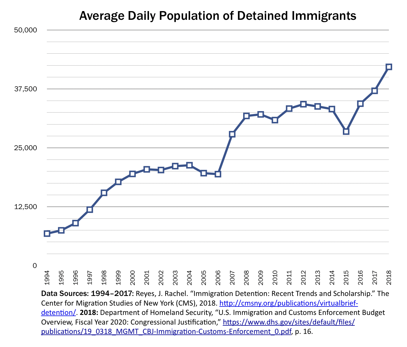 Line chat showing the average daily population of detained immigrants held by the United States government for the fiscal years 1994-2018. Data for FY 1994-2017 compiled in Reyes, J. Rachel. “Immigration Detention: Recent Trends and Scholarship.” The Center for Migration Studies of New York (CMS), 2018. 2018 figure in Department of Homeland Security, “U.S. Immigration and Customs Enforcement Budget Overview, Fiscal Year 2020: Congressional Justification,” p. 16.